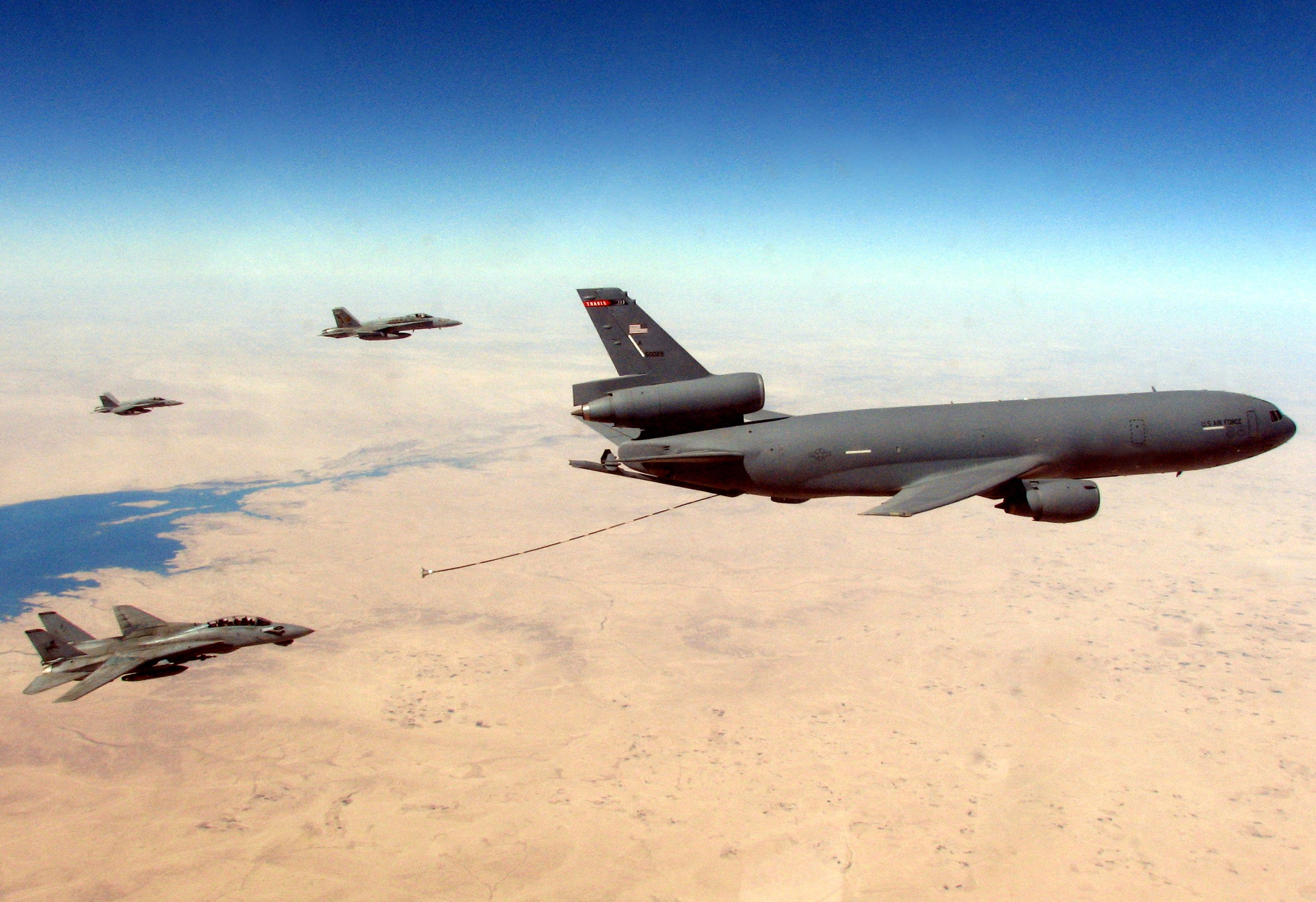 An F-14D Tomcat, assigned to Fighter Squadron Two One Three (VFA-213), prepares to refuel from a U.S. Air Force KC-10 Extender, assigned to the 60th Air Mobility Wing, during a mission over the Persian Gulf region. Two F/A-18C Hornets, assigned to Strike Fighter Squadron Eight Seven (VFA-87), also wait their turn for aerial fueling. VF-213 and VFA-87 are assigned to Carrier Air Wing Eight (CVW-8), embarked aboard the Nimitz-class aircraft carrier USS Theodore Roosevelt (CVN 71)